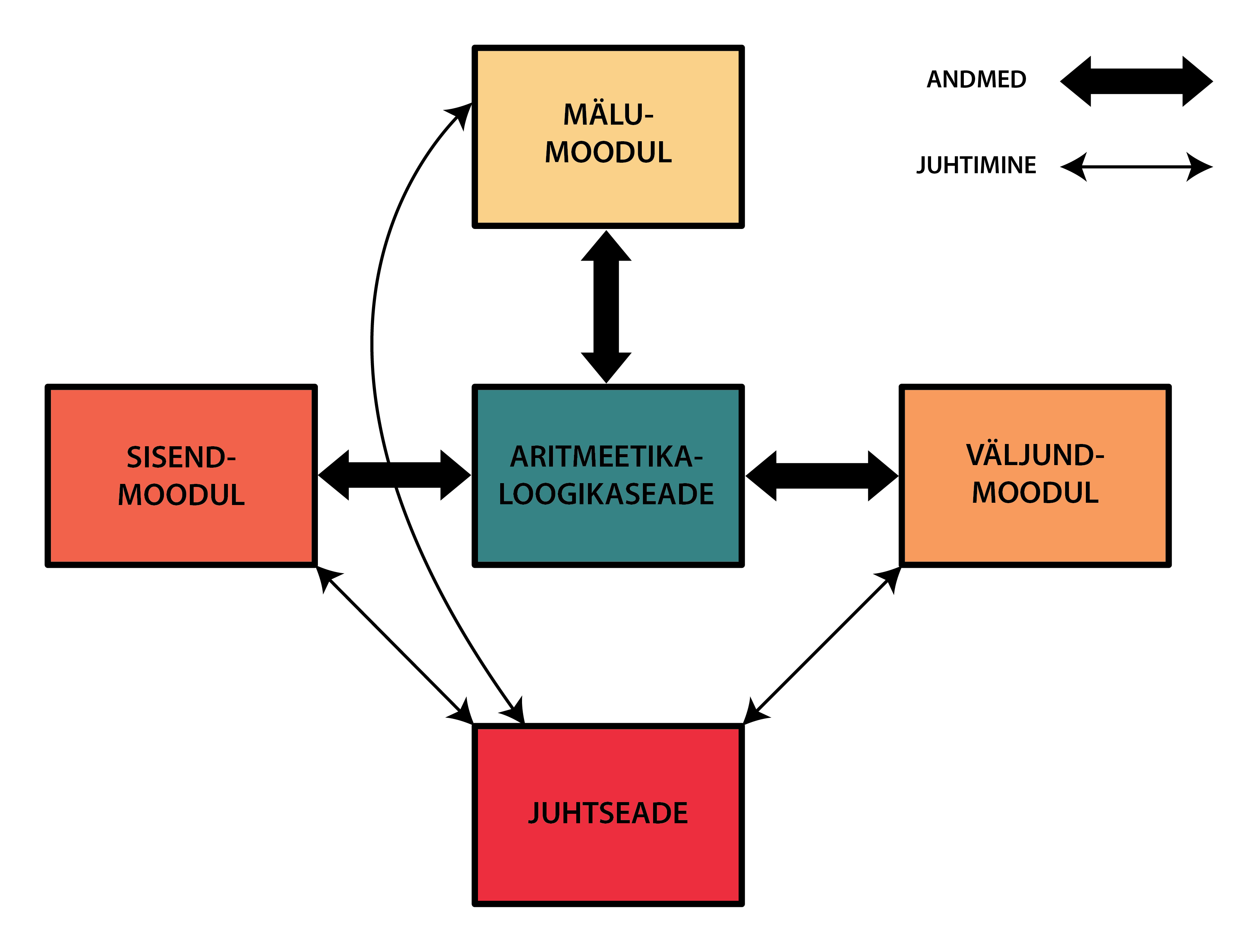 The von Neumann model of a digital computer.